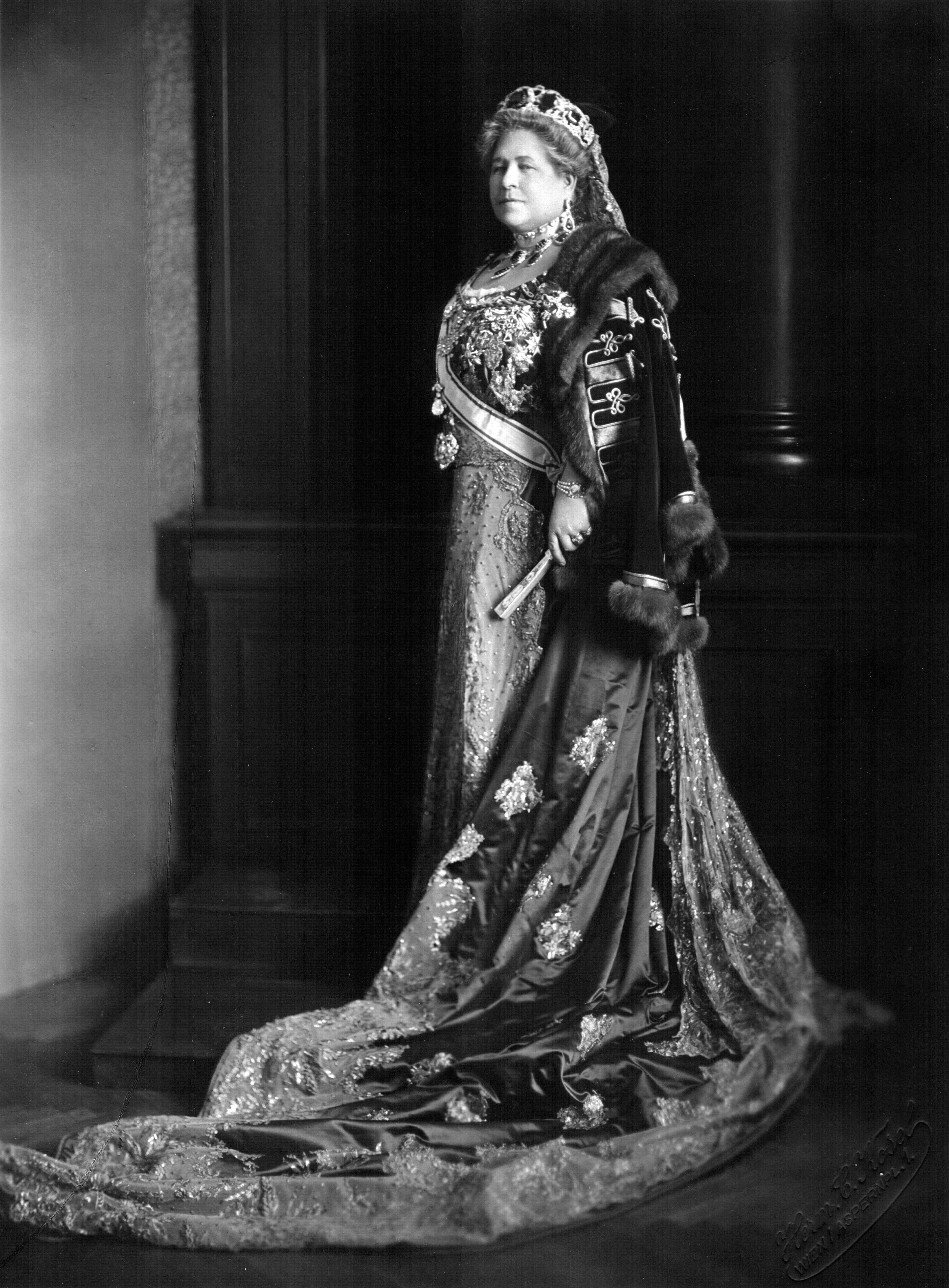 Princess Isabella of Croÿ (1856-1931). Princess, Austro-Hungarian Monarchy.